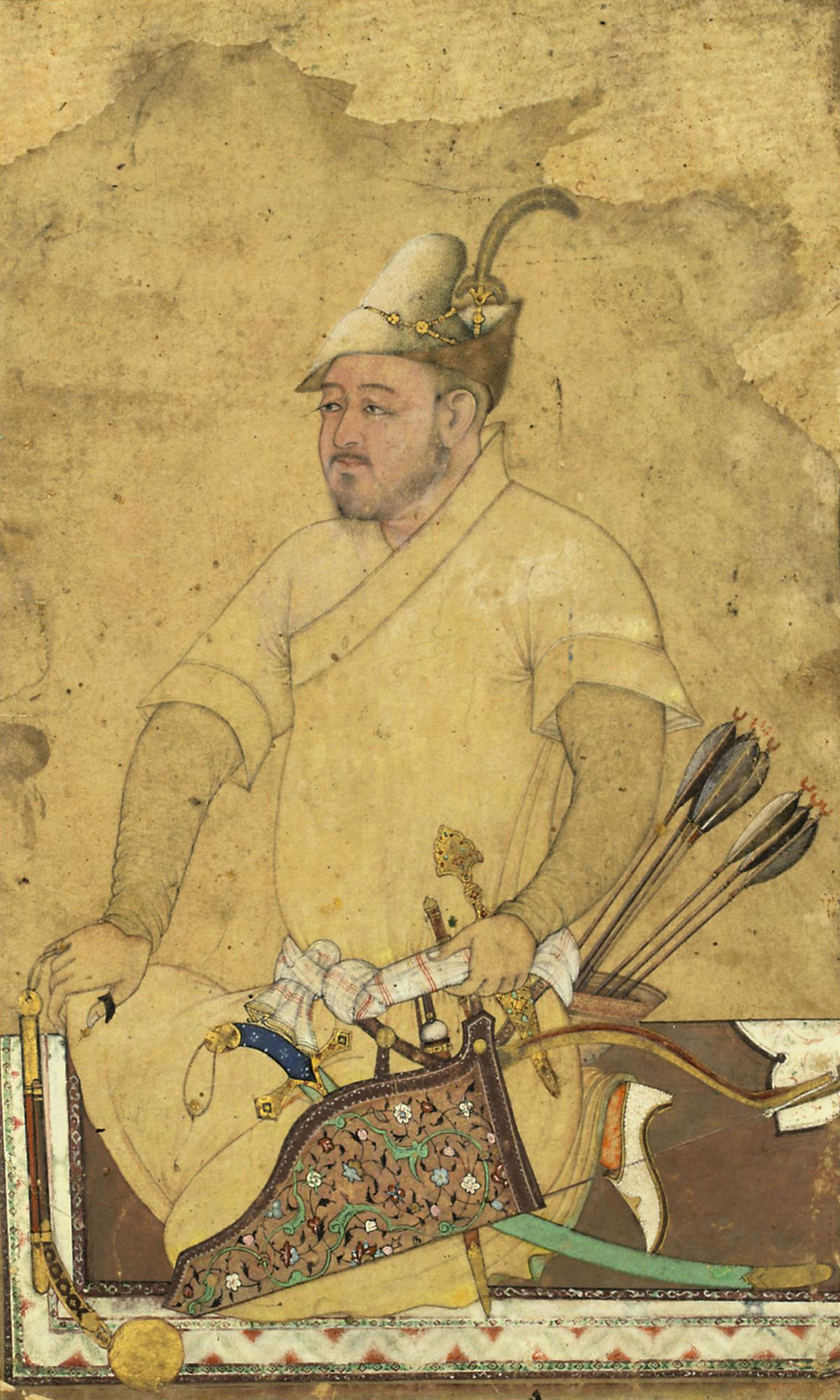 Gouache heightened with gold on paper, the heavily armed warrior with a very finely painted face kneels upon a medallion carpet wearing a robe with short sleeves and an adorned fur hat, a mace, daggers, bow and arrow and shamshir amongst his weapons 17.3 x 10.5cm.